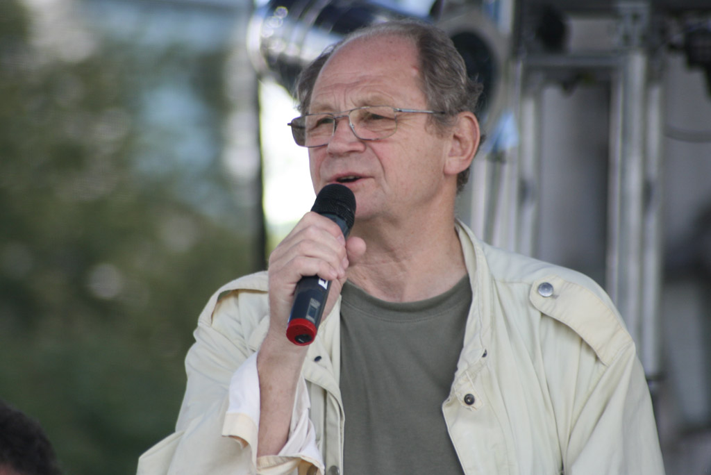 Witold Debicki polish actor